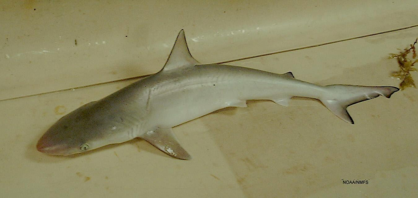 Atlantic sharpnose shark (Rhizoprionodon terraenovae) from Gulf of Mexico